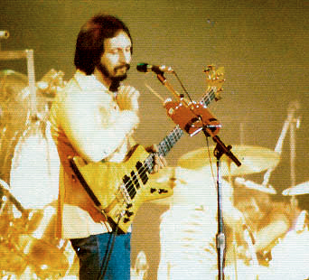 John Entwistle, The Who, Toronto Maple Leaf Gardens, Oct 1976